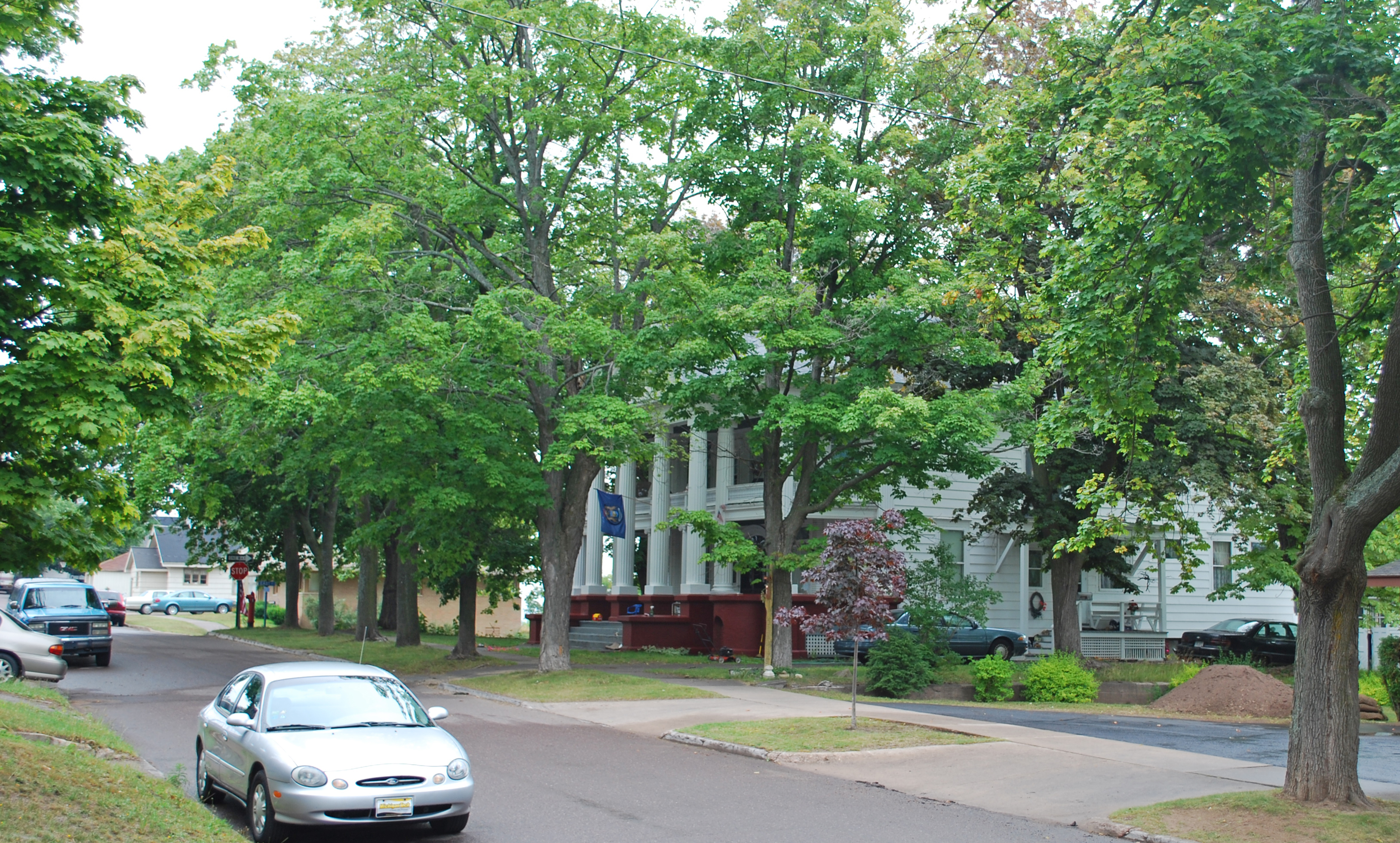 East Hancock MI Neighborhood Historic District